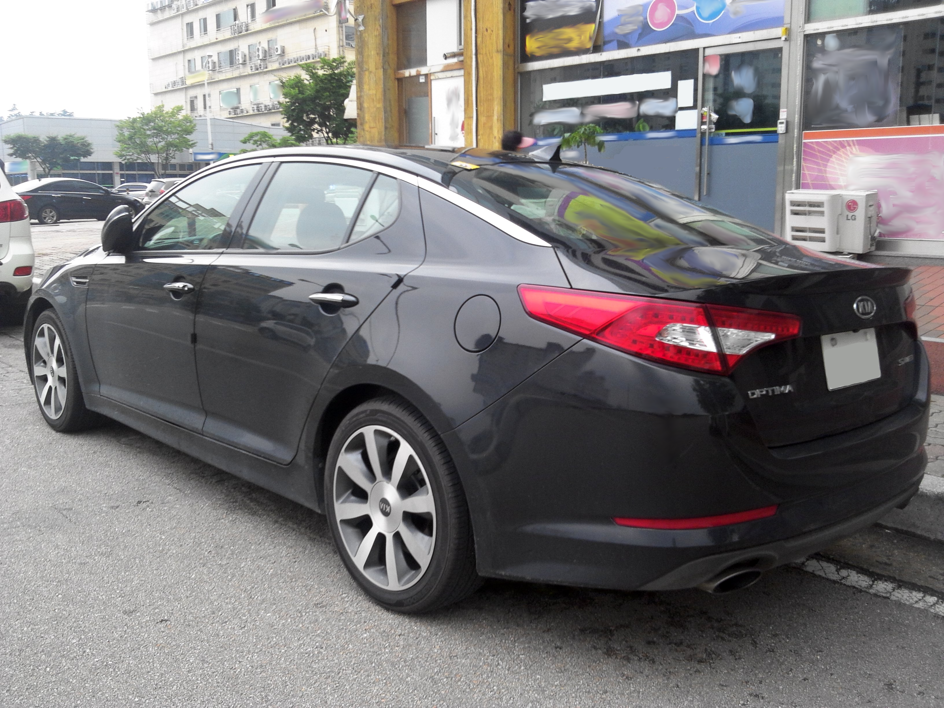 Rear-left side of Kia Optima.